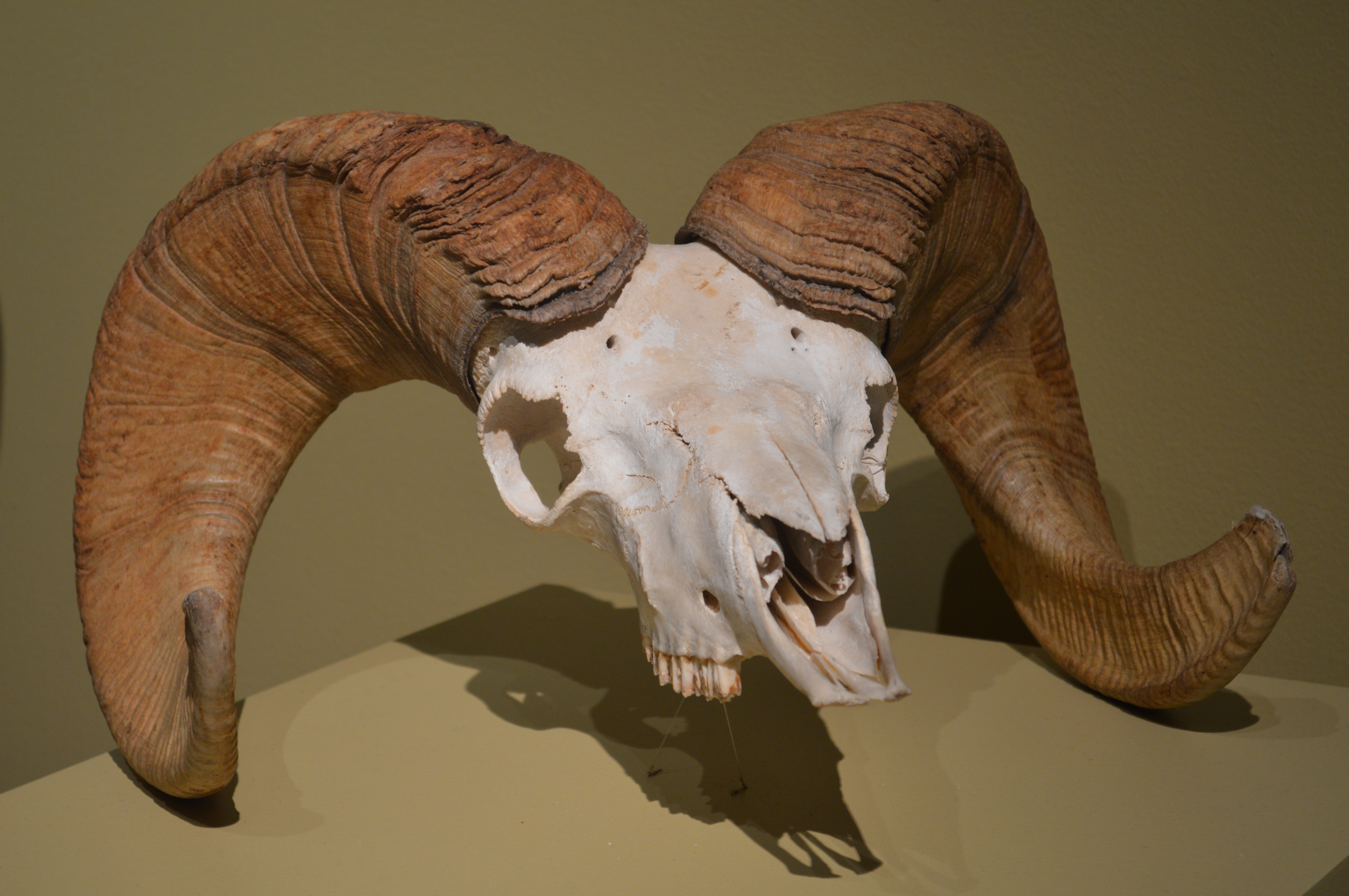 Ram's skull (Ovis canadensis cremnobates) at the El Norte, su materia, su artesania at the Museo de Arte Popular in Mexico City